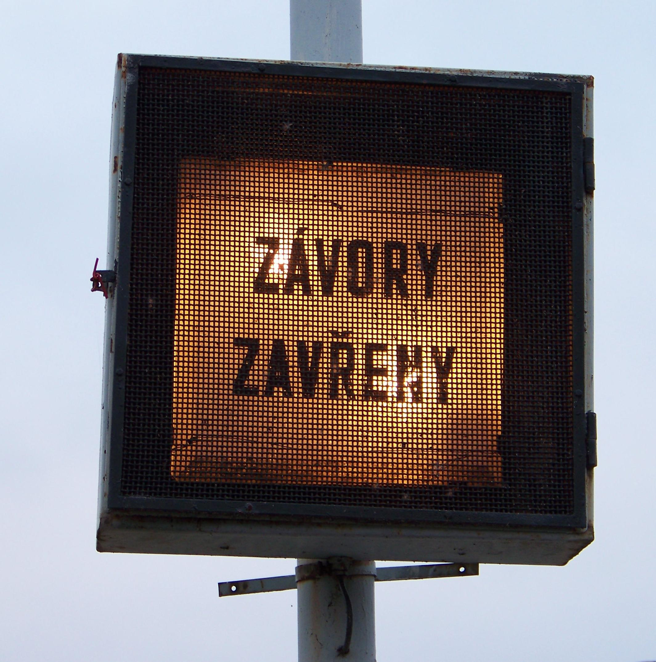 Řevnice, Prague-West District, Central Bohemian Region, the Czech Republic. Pražská street, a road signal „barriers closed“, a distant signal of railway crossing. - Google Maps - Google Earth